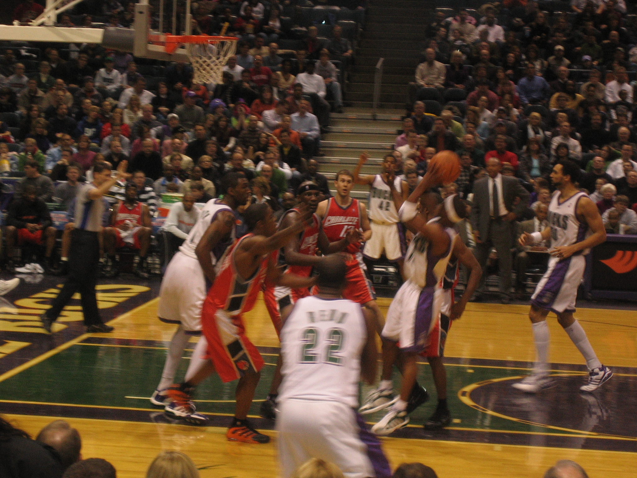 TJ Ford shooting in the running jumper.